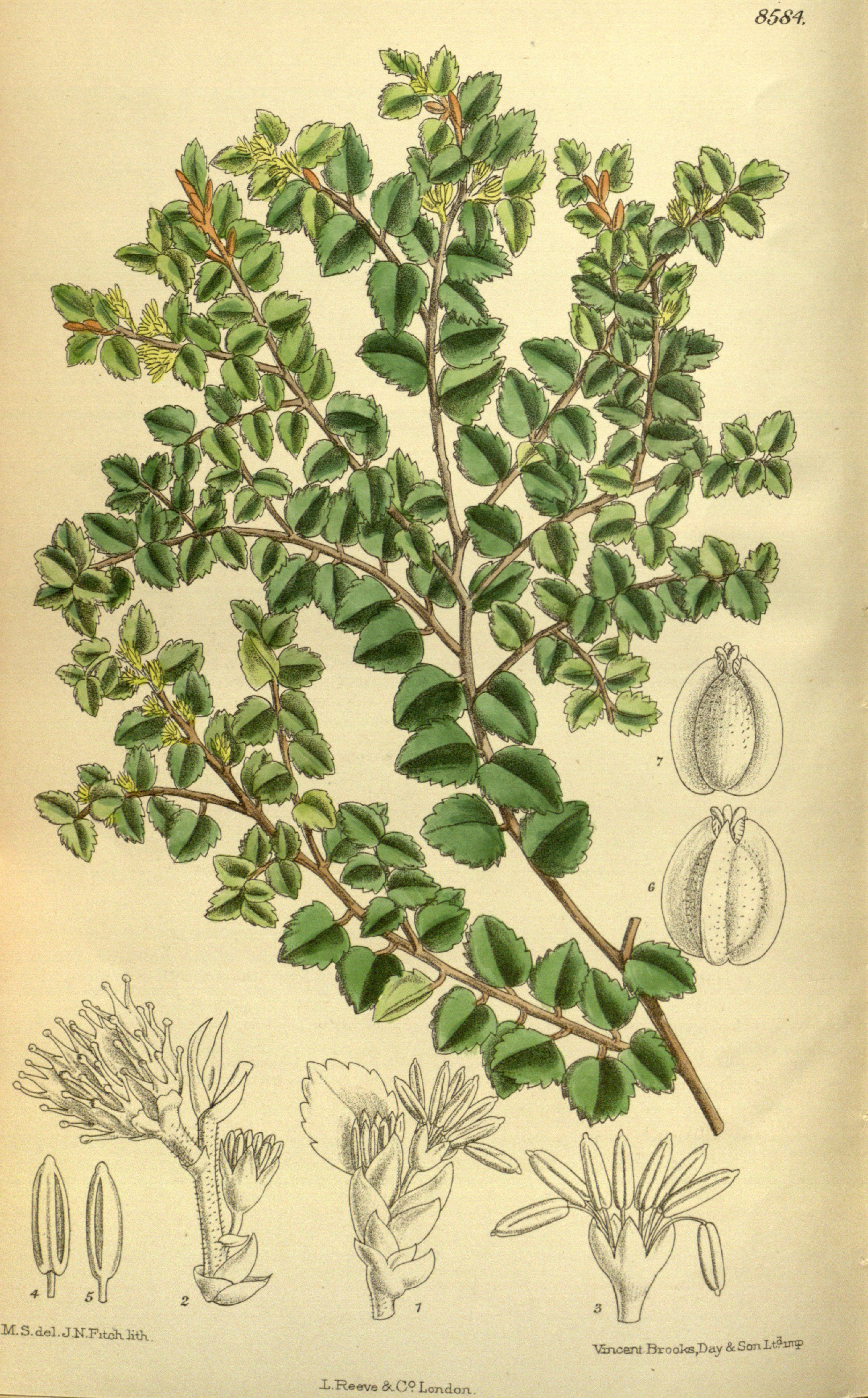 Nothofagus cunninghamii, Nothofagaceae